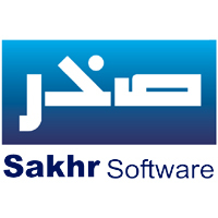 Company logo of Sakhr Company